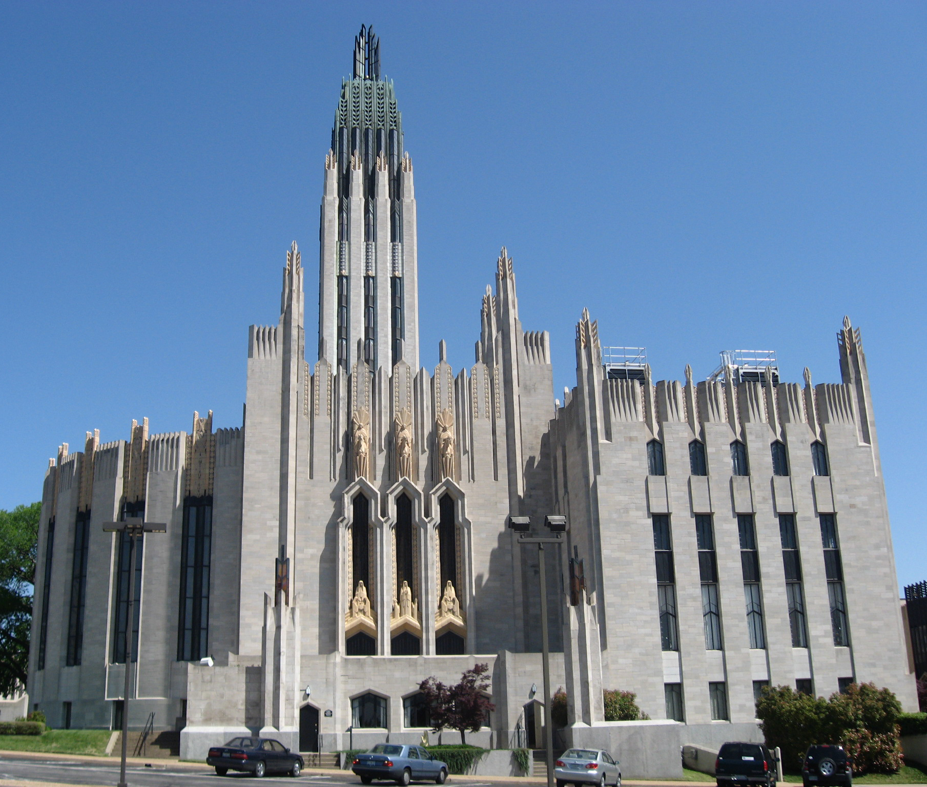 Boston Avenue Methodist Church